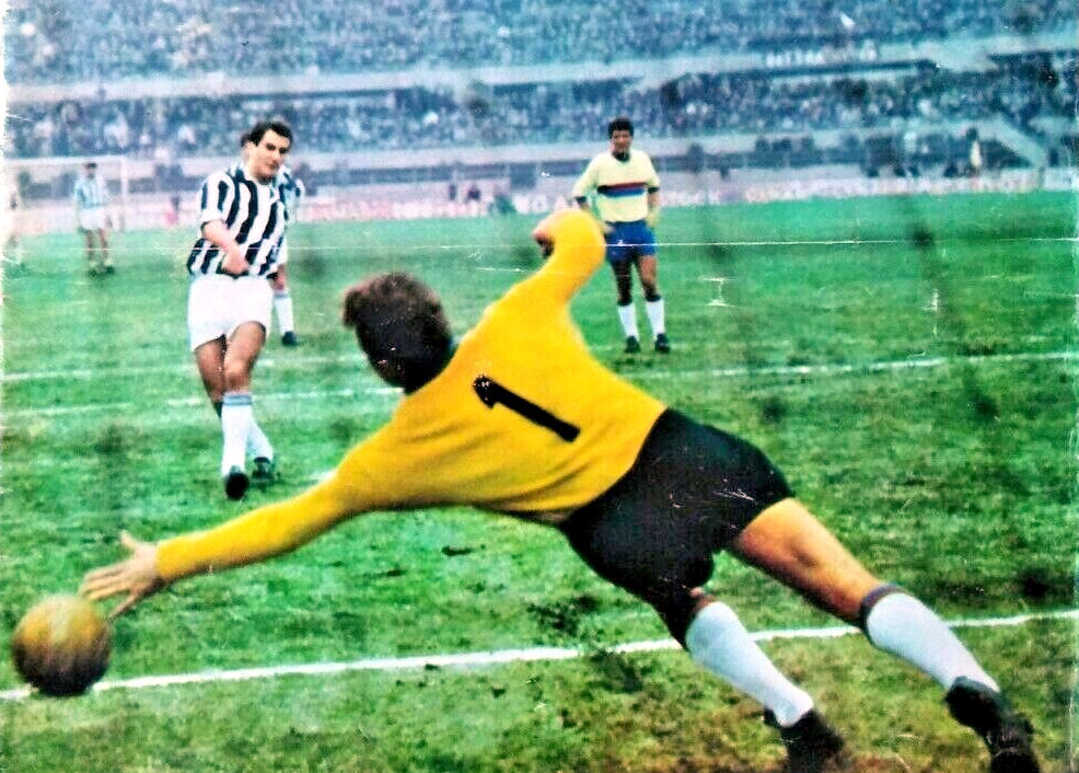 Turin (Italy), Communal Stadium, February 27, 1966. Juventus F.C. — C.C. Catania 1-0, Matchday 23 of Italian League 1965–66 Serie A: Juventus' forward Silvino Bercellino (background) beats on penalty kick Catania's goalkeeper Giuseppe Vavassori (foreground) and scores at 14' the winning goal.